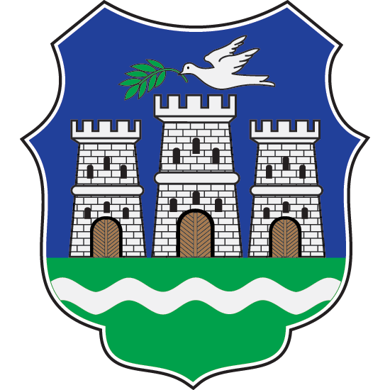 Description: Coat of arms of city of Novi Sad